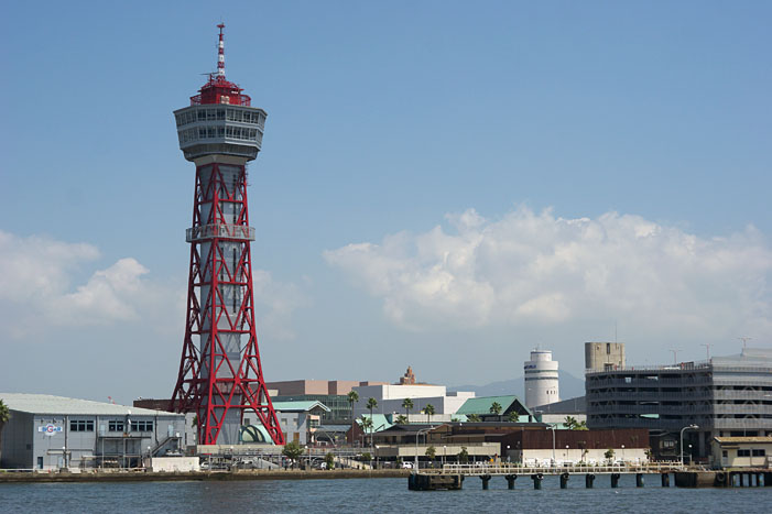 Bayside Place Hakata Futoh, in Hakata, Fukuoka, Japan.